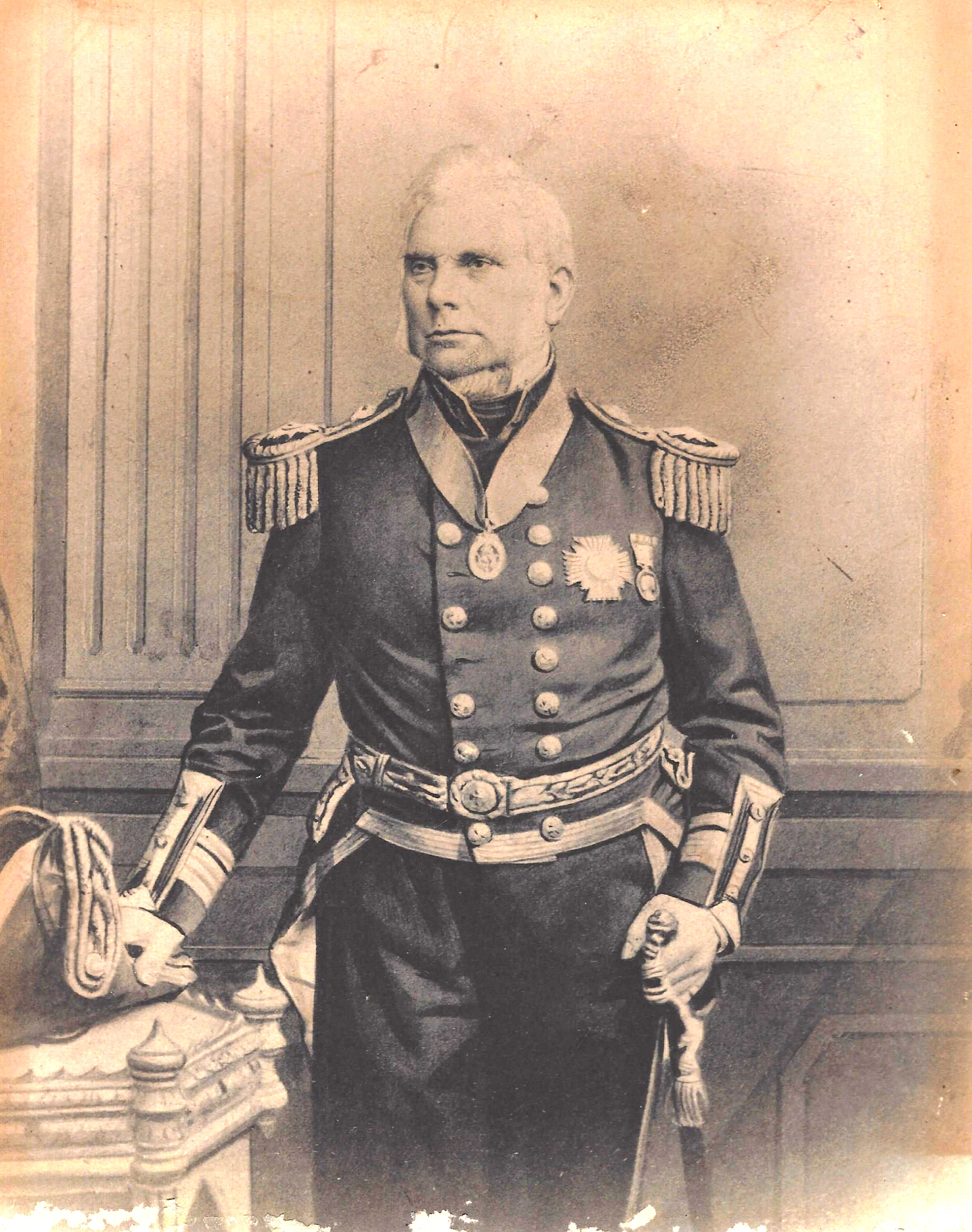 Rear Admiral Sir Thomas Hastings CB, from a photograph which formerly hung in the Gunners' Mess, HMS Excellent